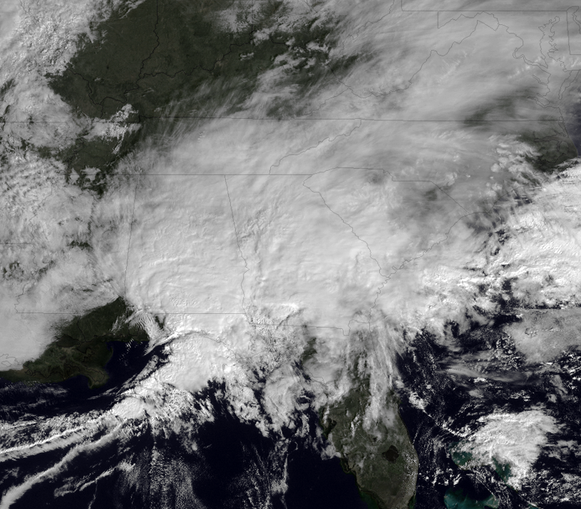 From the NNVL: A developing storm over the eastern Gulf Coast will deepen significantly as the system moves northeastward to the Carolina Coast by Friday morning. The storm will develop light to moderate rain over the interior central/eastern Gulf Coast on Thursday that will move into the Southeast Coast by Thursday evening. The rain will become moderate to heavy along the Virginia/North Carolina Coast by Friday morning. Another storm over the Central Plains/Middle Mississippi Valley will be blocked from moving to the East Coast and surrender its upper-level energy to the developing storm over the Gulf Coast/Southeast by Friday. Light to moderate rain will develop along the boundary over the Middle Mississippi Valley and move to the Ohio Valley/Tennessee Valley while intensifying to moderate to heavy rain by Friday morning. This image was taken by GOES East at 1515Z on February 7, 2013.